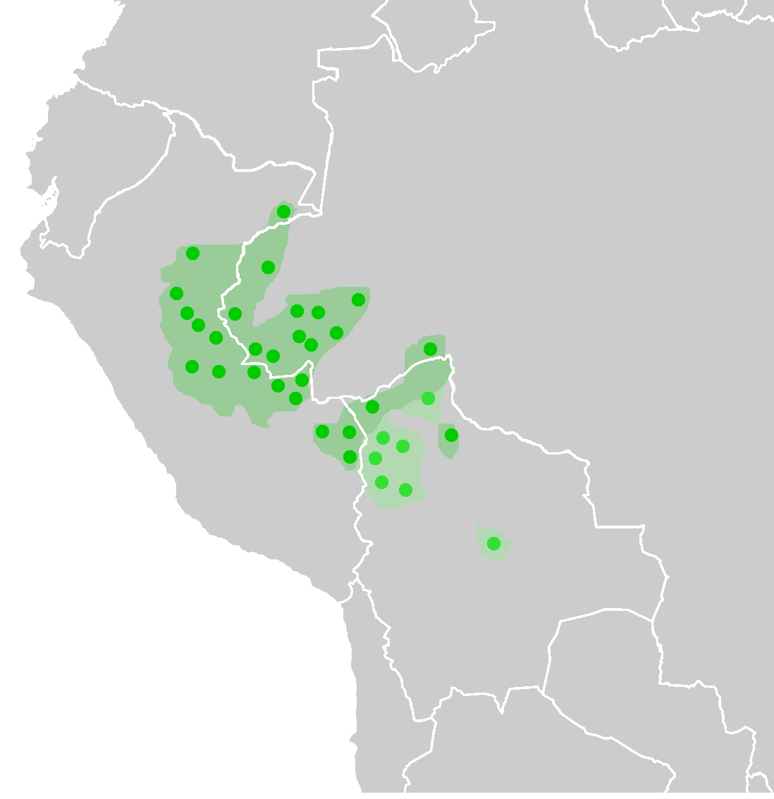 Pano (dark green) and Takana (clear green) documented languages areas and approximate early probable areas. Based on data Eugene E. Loos "Pano" and Dixon & Aikhenvaldin "Other small families and isolates" in The Amazonian Languages, Dixon & Alexandra Y. Aikhenvald (eds.), Cambridge: Cambridge University Press, 1999. p. 228 & p. 342.